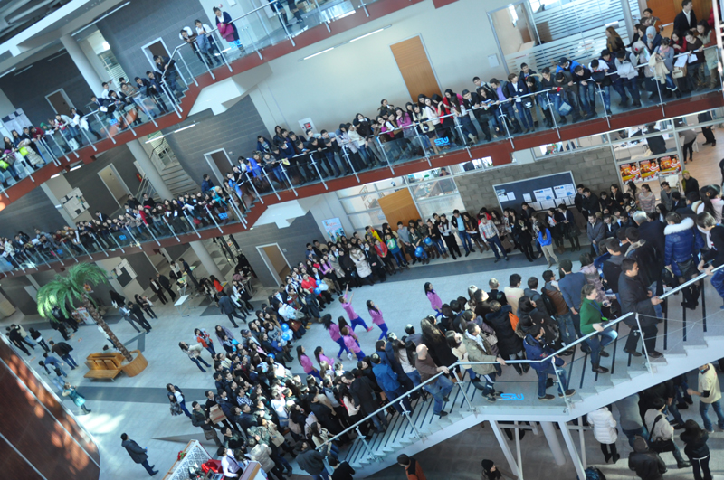 Social activities among students provide more friendly and live atmosphere to everyone in this place